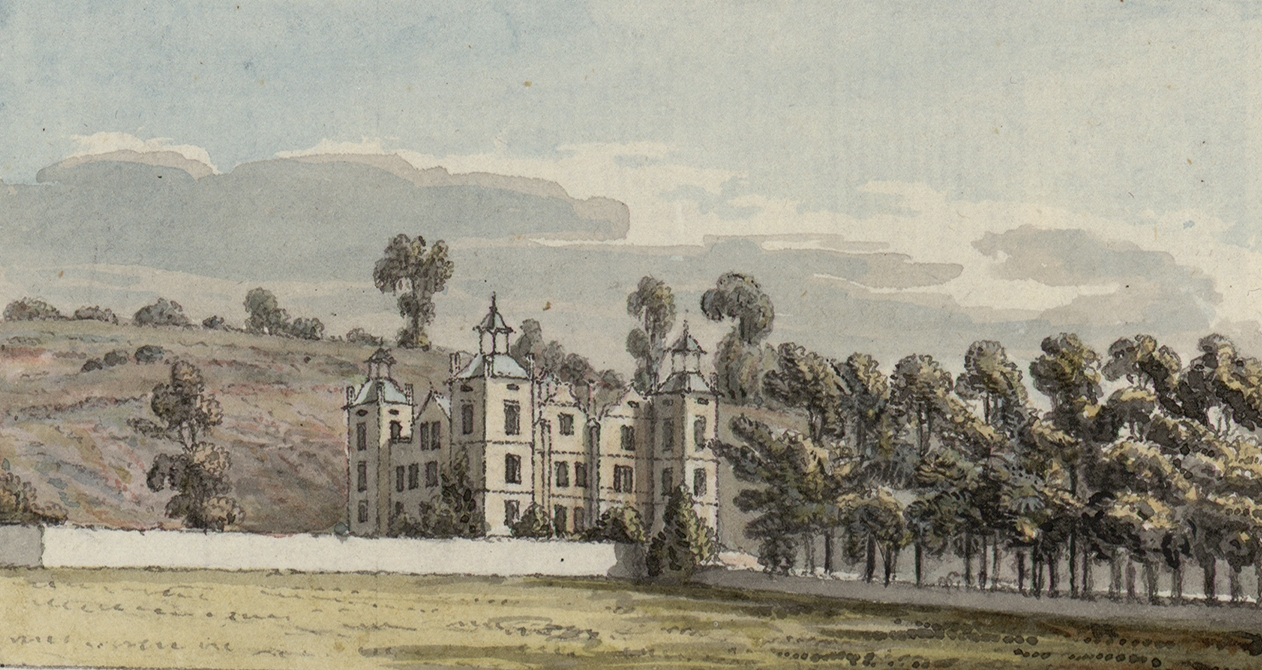 An image from a set of 8 extra-illustrated volumes of A tour in Wales by Thomas Pennant (1726-1798) that chronicle the three journeys he made through Wales between 1773 and 1776. These volumes are unique because they were compiled for Pennant's own library at Downing. This edition was produced in 1781. The volumes include a number of original drawings by Moses Griffiths, Ingleby and other well known artists of the period. Thomas Pennant (1726-1798)